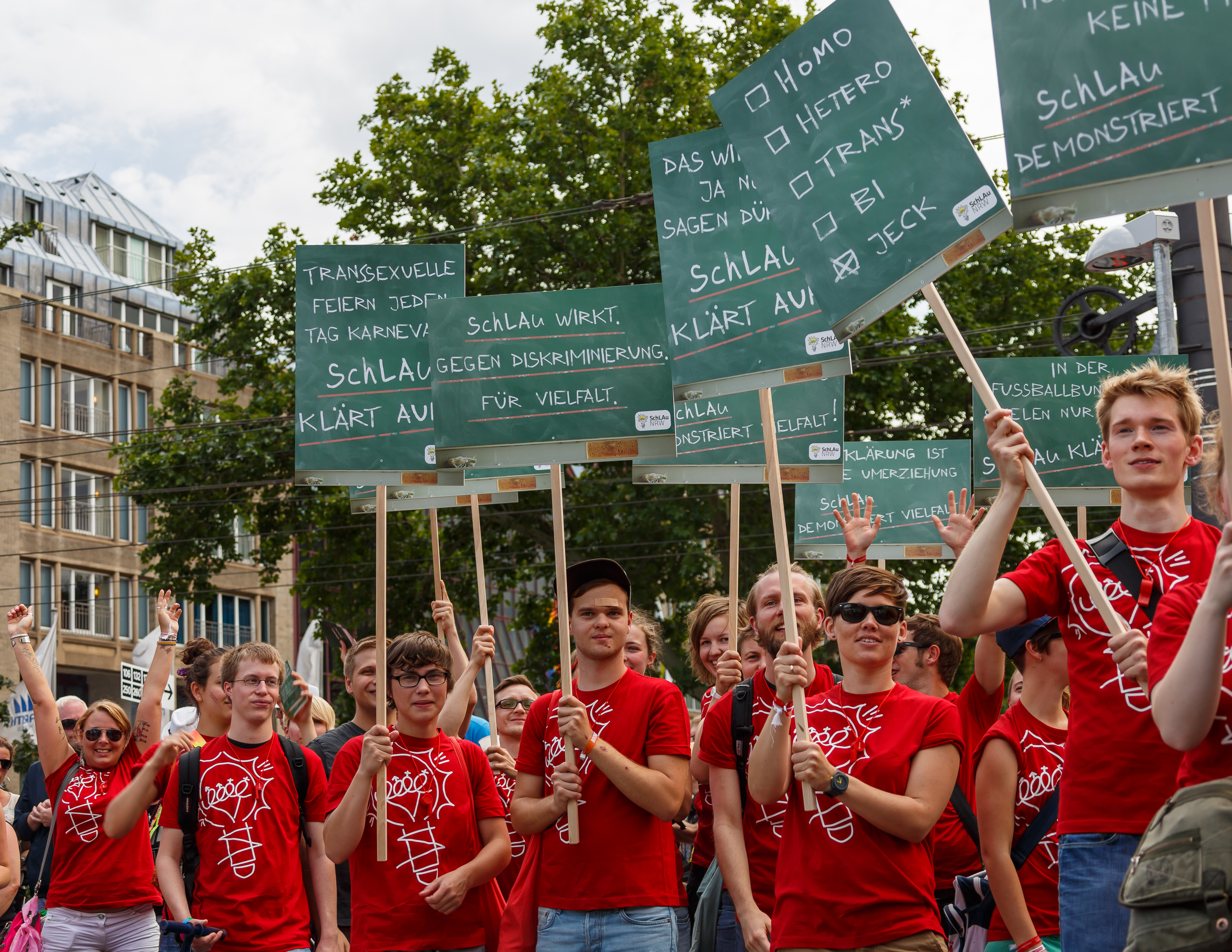 Cologne, Germany: Supporters of "SchLAu NRW" (an awareness program for schools and youth groups about gay, lesbian, bisexual and transsexual diversity in North Rhine-Westphalia ) at Cologne Pride Parade 2014